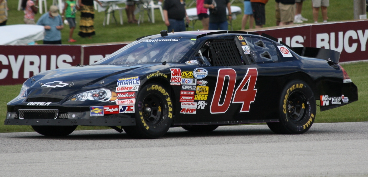 The NASCAR racecar for driver Kevin Lepage at the 2010 Bucyrus 200 at Road America.